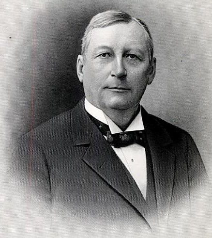 Henry W. Bentley, Congressman from New York